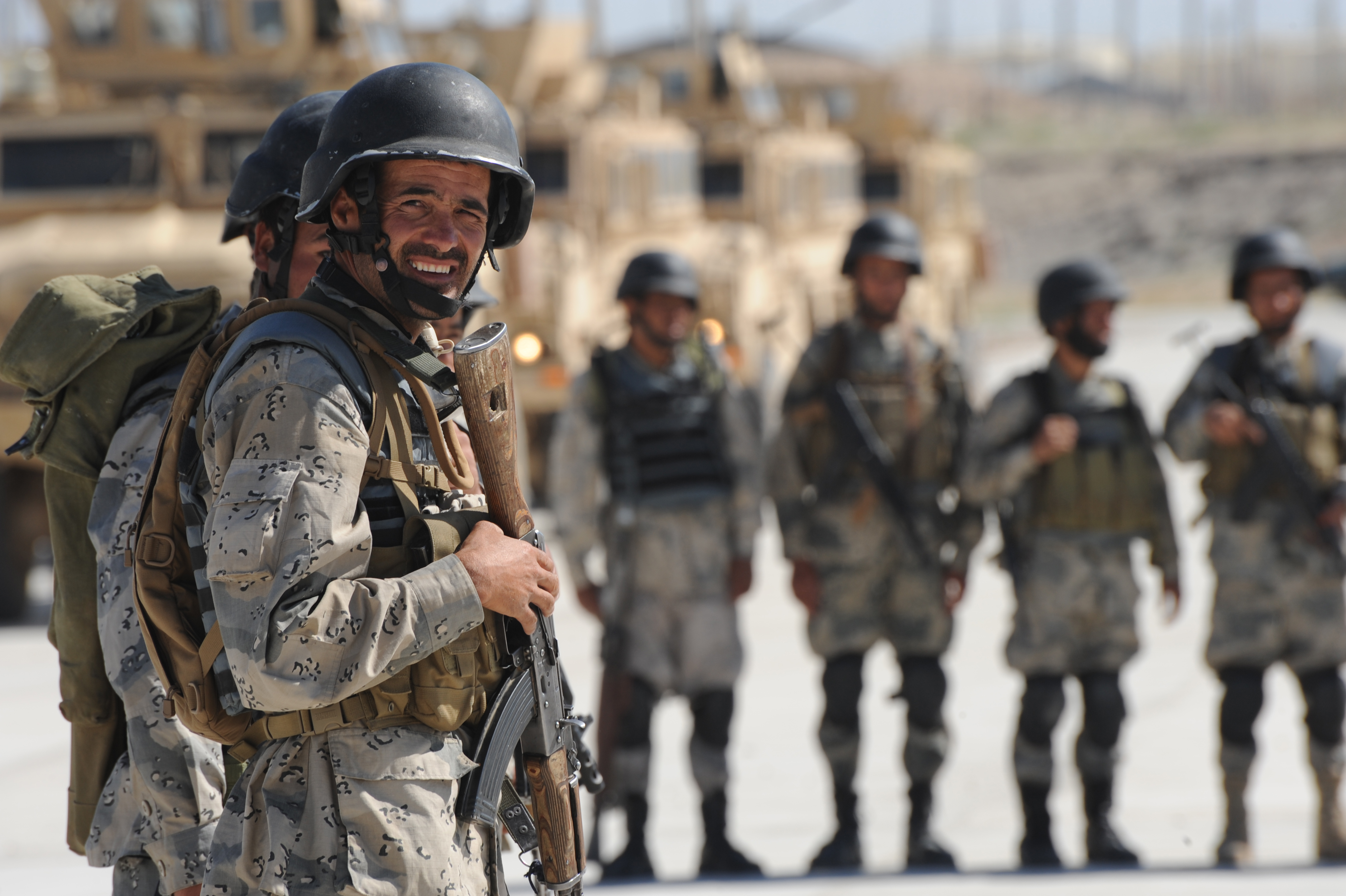 Members of the Afghan Nation Border Police prepare to start a security mission at the Heyratan border crossing in Northern Afghanistan. This ANBP unit has been partnered with Soldiers of the 10th Mountain Division’s 1st Brigade Special Troops Battalion.(1st Brigade Combat Team, 10th Mountain Division Public Affairs Photo by Spc. Blair Neelands)